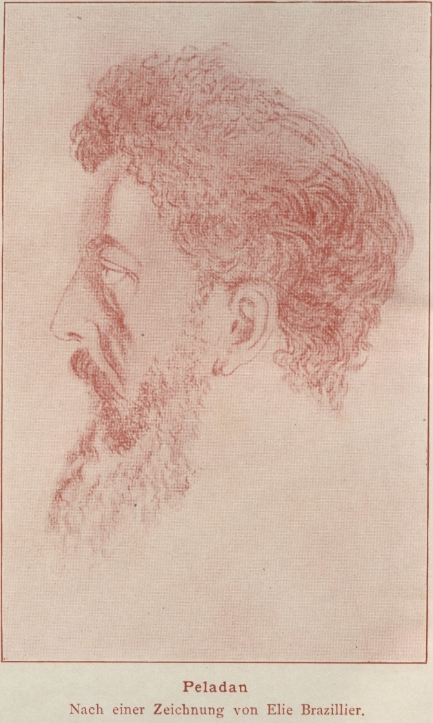 Drawing by Eli Brazillier